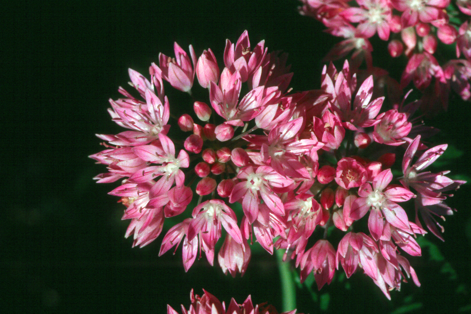 Scientific name: Allium amplectens Common name: Narrowleaf Onion Spring is here and the flowers are in full bloom at one of Oregon's natural gems. Located on the western edge of Eugene, Oregon, the West Eugene Wetlands (WEW) is a beautiful and rare area of grassland habitats. Comprised of less than one percent of the original native wet prairie, the WEW is home to over 200 species of wildflowers, plants, birds, and animals, including four threatened and endangered species: Fender’s blue butterfly, Kincaid’s lupine, Bradshaw’s lomatium, and Willamette daisy. The BLM's Eugene District, in collaboration with other Rivers to Ridges partners, works to protect and restore this vital wetland ecosystem in the Southern Willamette Valley. This unique project involves federal, state, and local agencies, as well as non-profit organizations, working together to manage lands and resources in an urban area for multiple public benefits. Each year, Willamette Resources & Educational Network (WREN) provides hands-on, minds-on environmental education to over 1,500 local students. Photo credits: Christine Williams, Mackenzie Cowan, Sandra Miles, Sally Villegas, and West Eugene Wetlands staff. For directions or to plan a visit to the West Eugene Wetlands